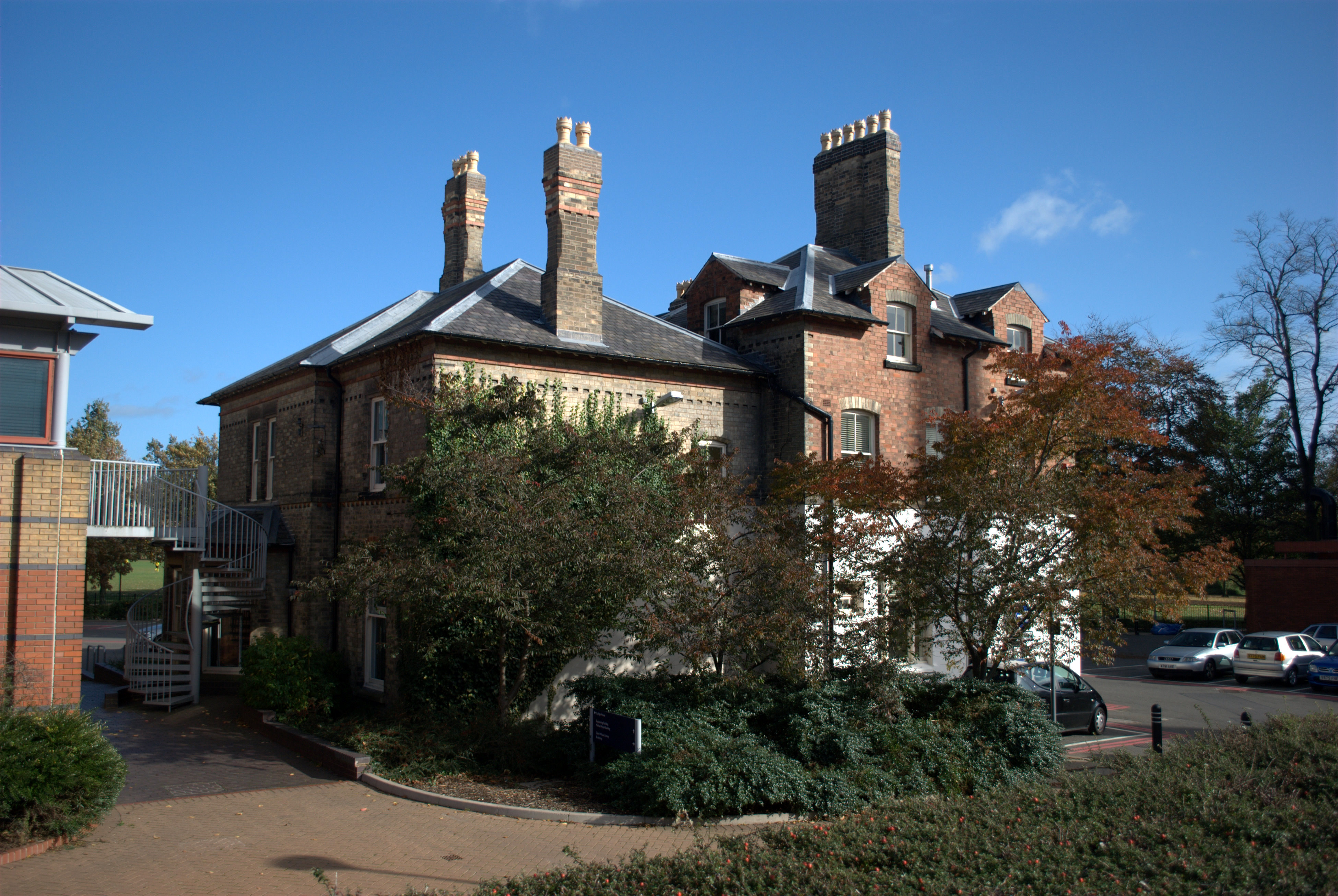 College House at the University of Leicester, childhood home of David and Richard Attenborough